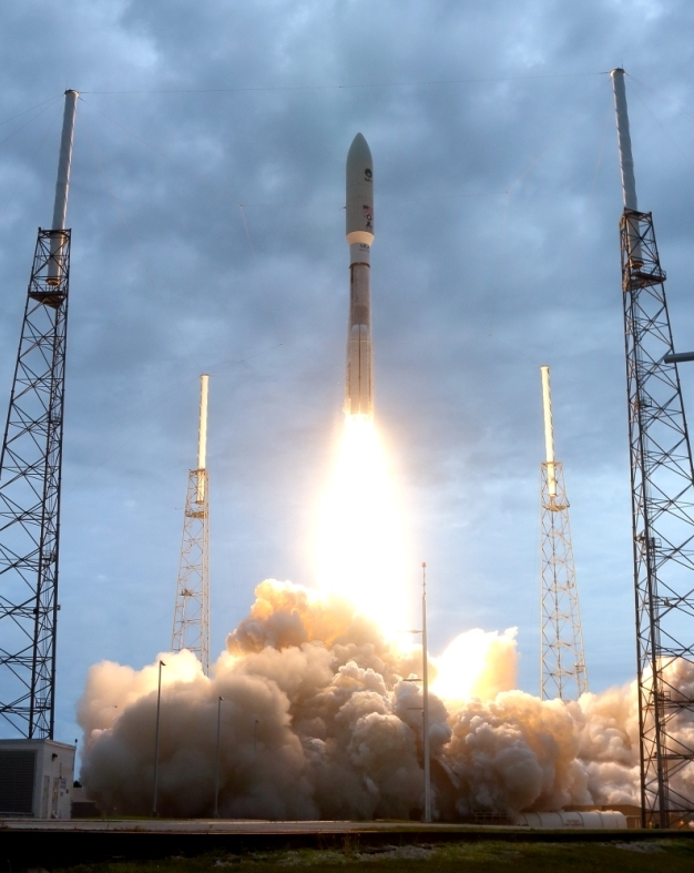 A United Launch Alliance Atlas V rocket carrying the second Mobile User Objective System (MUOS-2) satellite for the United States Navy lifted off from Cape Canaveral Air Force Station's Space Launch Complex-41 at 9 a.m. This was ULA's 6th launch of an aggressive 12 mission schedule for the year and the 72nd ULA mission since its formation in 2006. MUOS is a next-generation narrowband tactical satellite communications system designed to significantly improve beyond-line-of-sight communications for U.S. forces on the move. MUOS will provide military users 10 times more communications capacity over the existing system by leveraging 3G mobile communications technology, and will provide simultaneous voice and data capability.